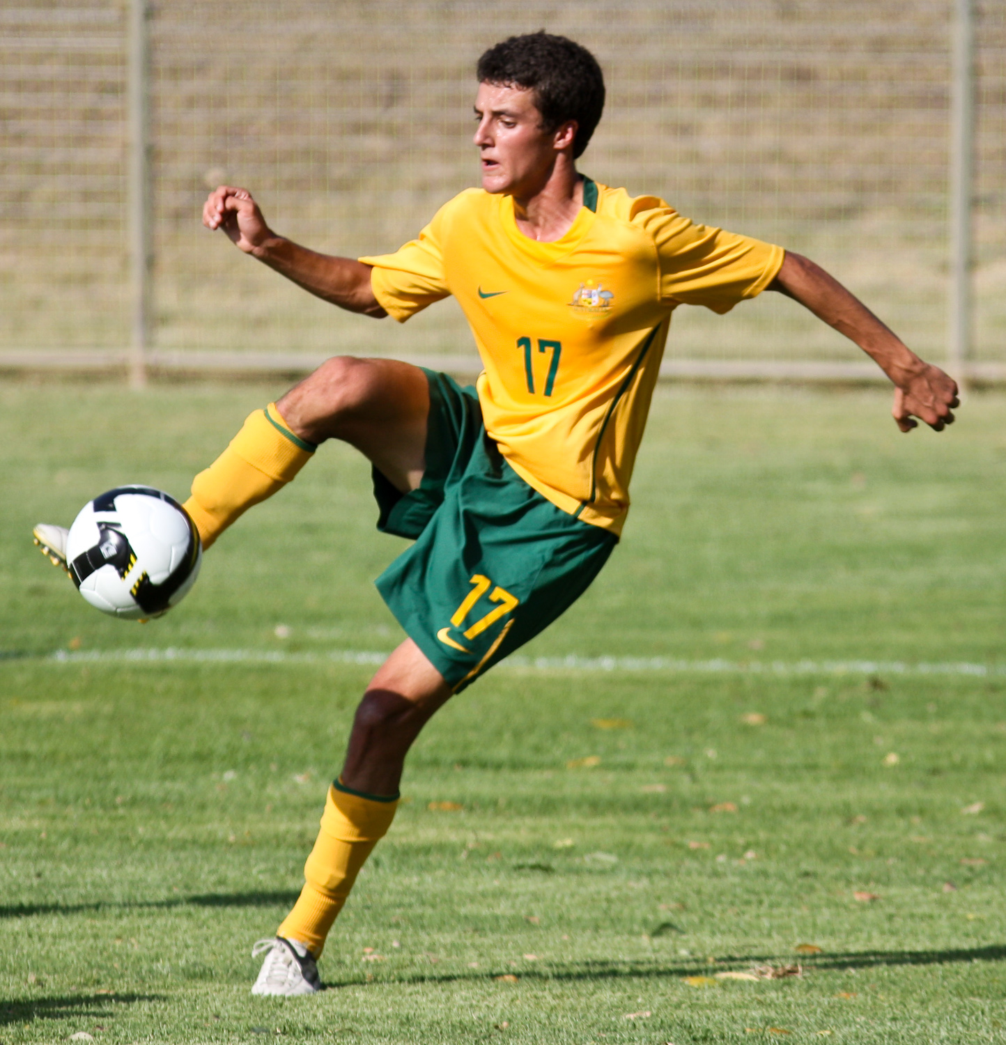 James Virgili playing for an Australia Under 18 side in the Australian Youth Olympic Festival against China.